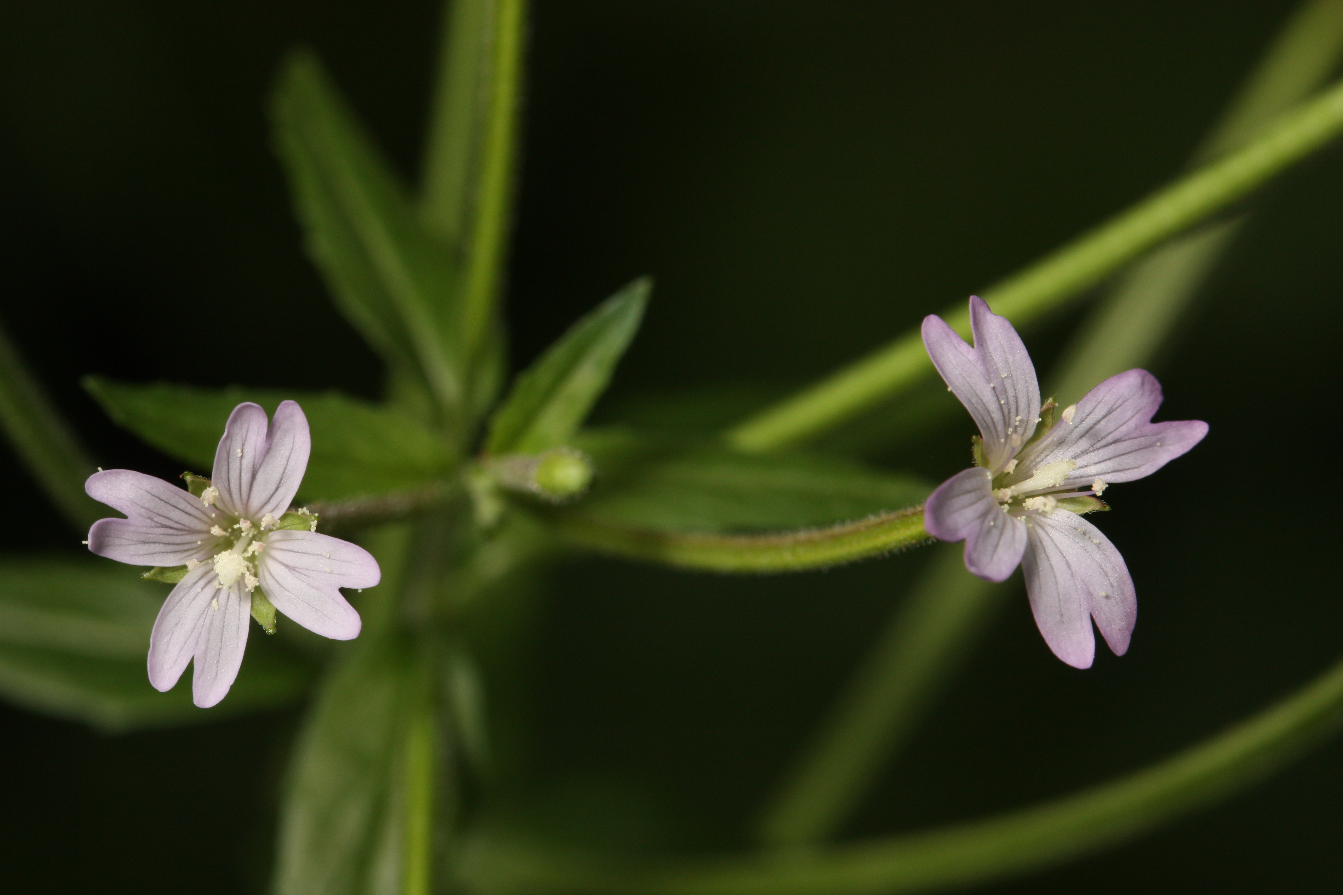 Smooth Willowherb